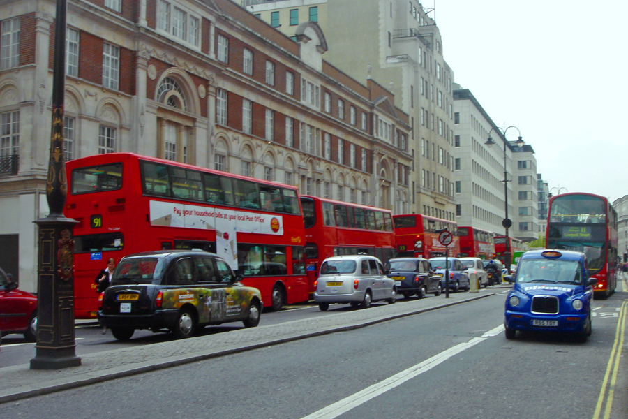 Strand, London, near Trafalgar Square